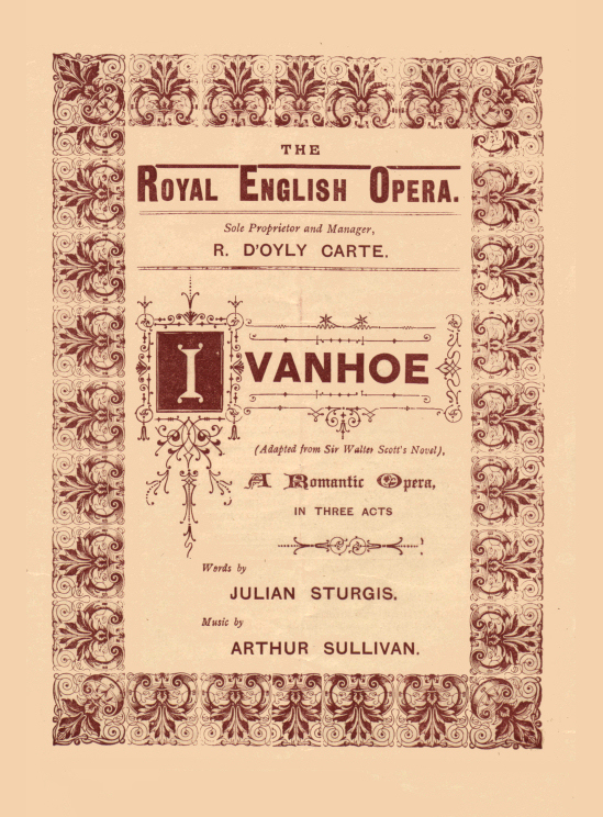 Scan of front cover of original Victorian theatre programme for Richard D'Oyly Carte's 1891 production of Ivanhoe. Public domain.